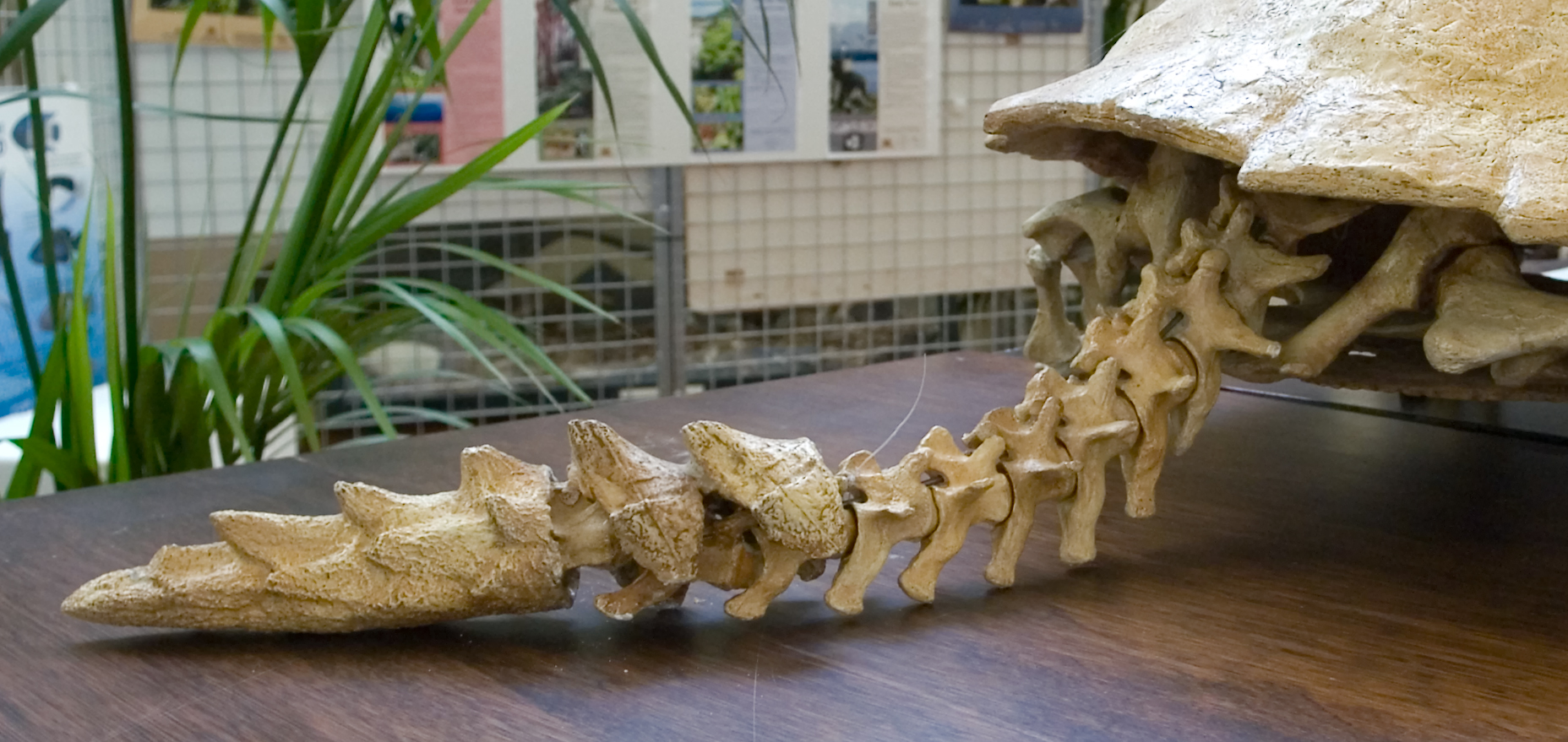 Meiolania Platyceps, Lord Howe Island Maritime Museum.